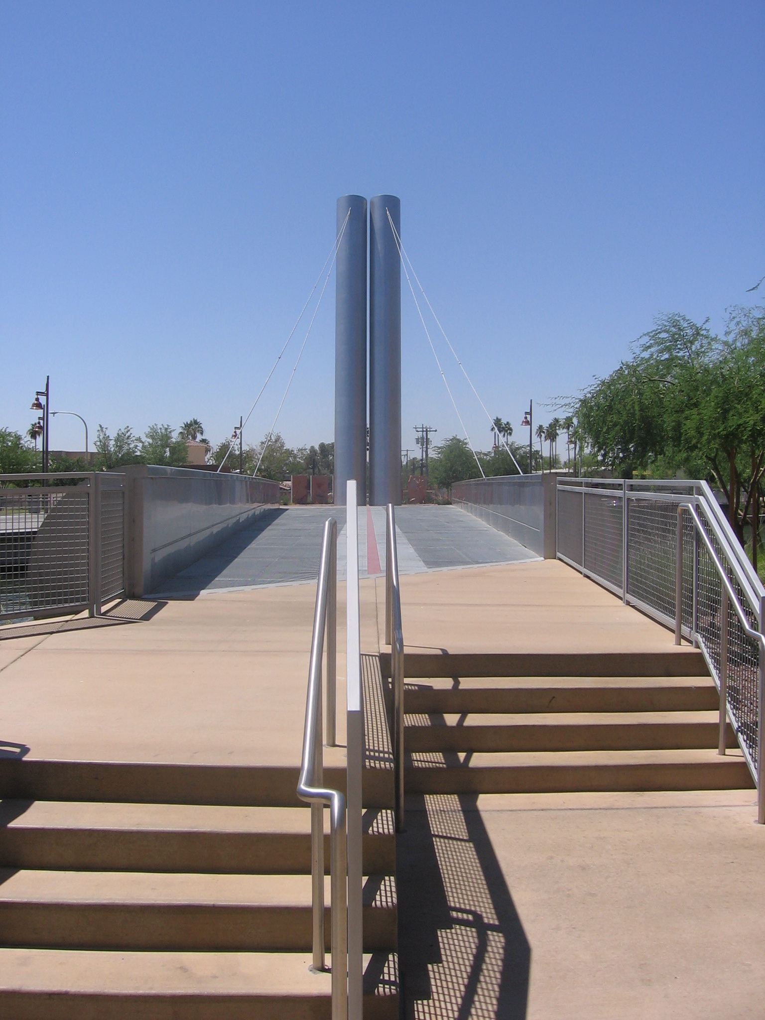 Pedestrian bridge over the Arizona Canal in Scottsdale, Arizona, USA near the intersection of North Scottsdale Road and East Camelback Road. The bridge was designed by architect Paolo Soleri. This view is looking south.